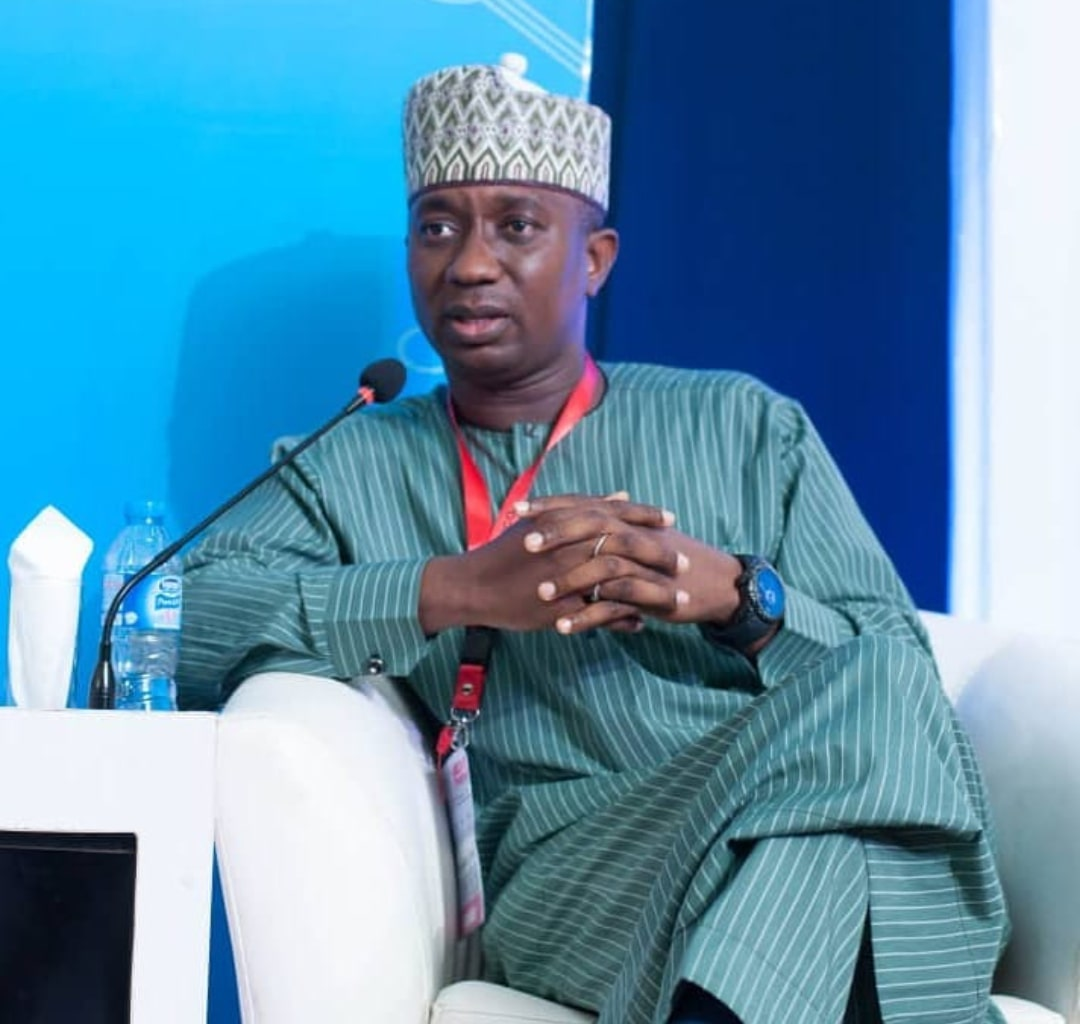 Mohammed Ibrahim Jega speaking at a digital africa conference in 2018.